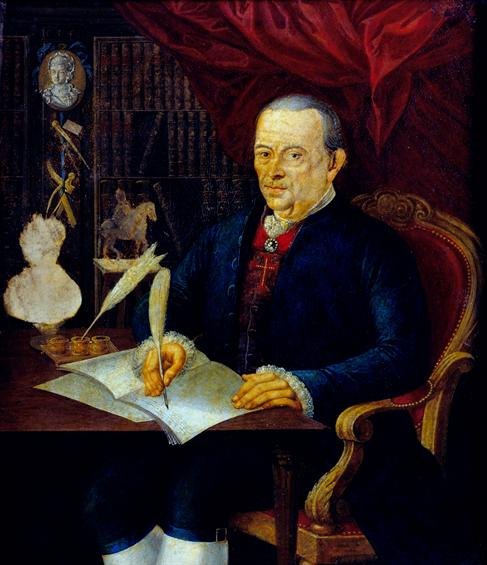 escultor